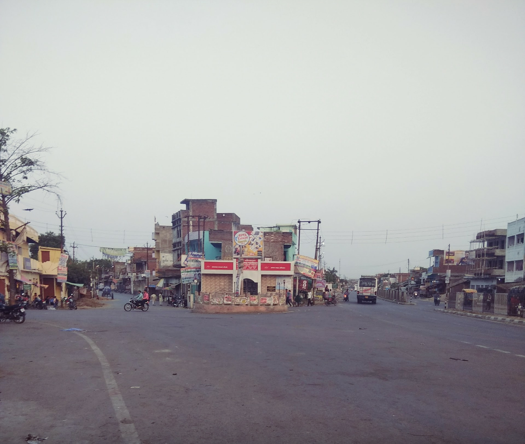 Entry crossroad to Machhalisahar